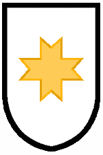 Coat of arm of Tripoli.